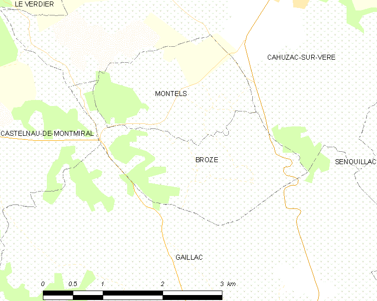 Map of French municipality Broze